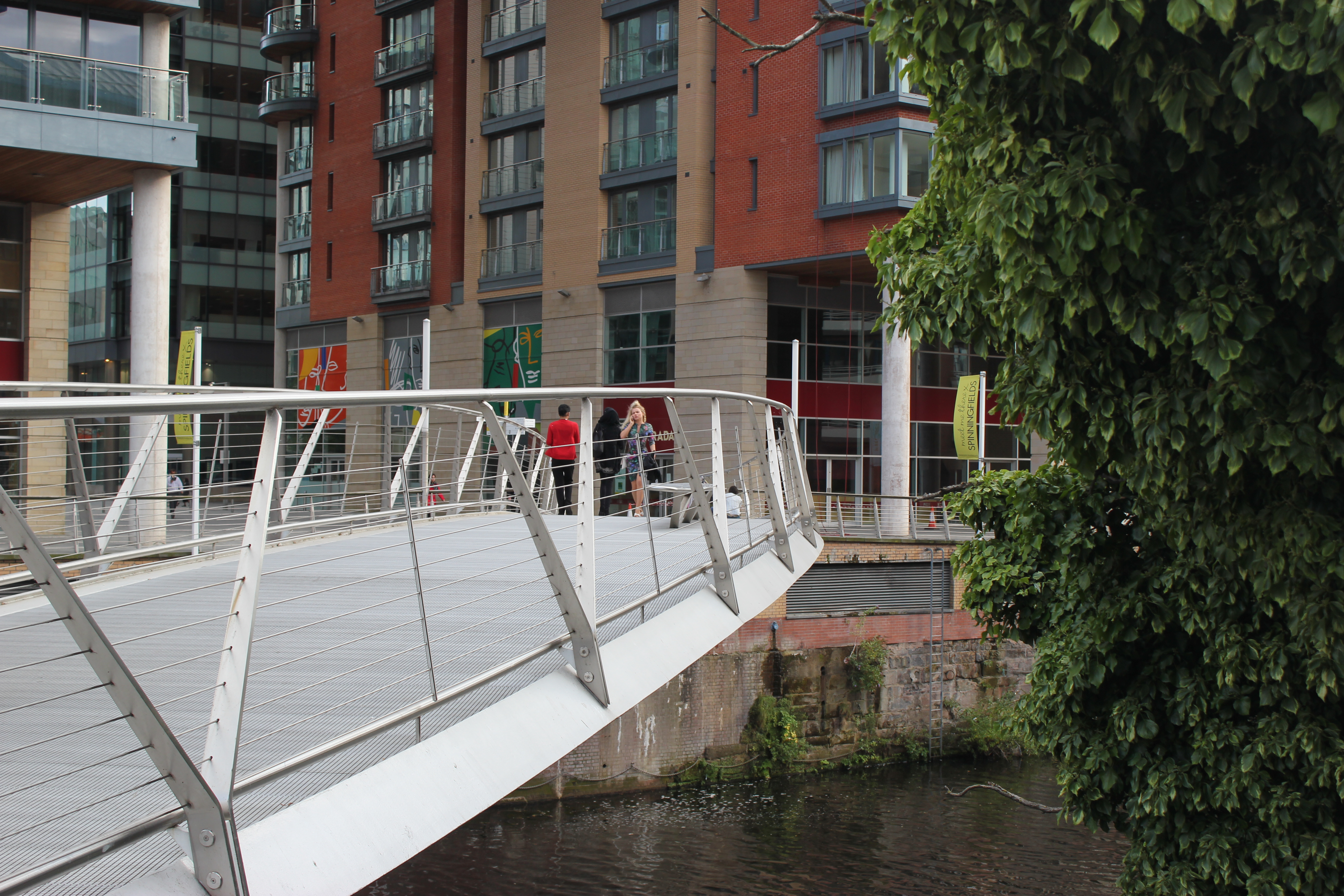 A modern pedestrian footbridge linking Spinningfields to Salford. The bridge spans the River Irwell.